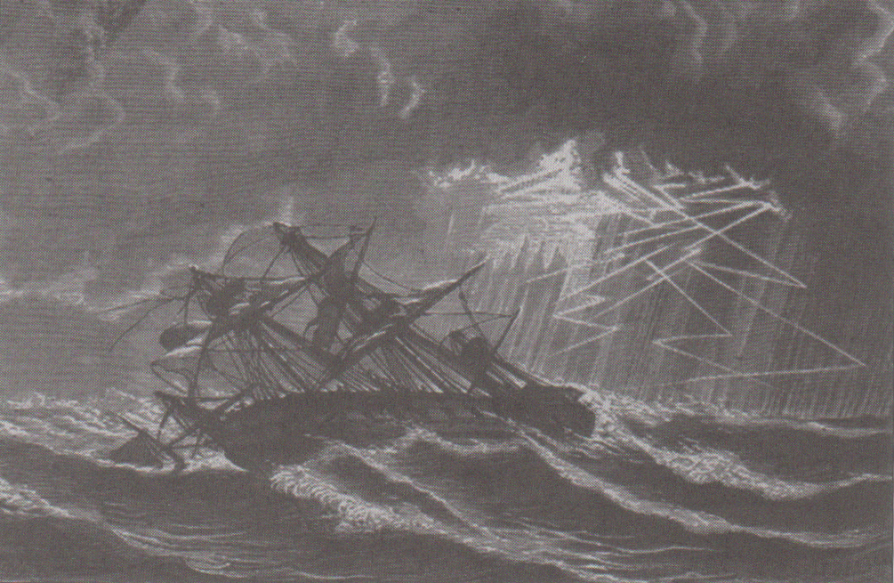 The Rose-in-Bloom overturns during the 1806 Great Coastal hurricane.